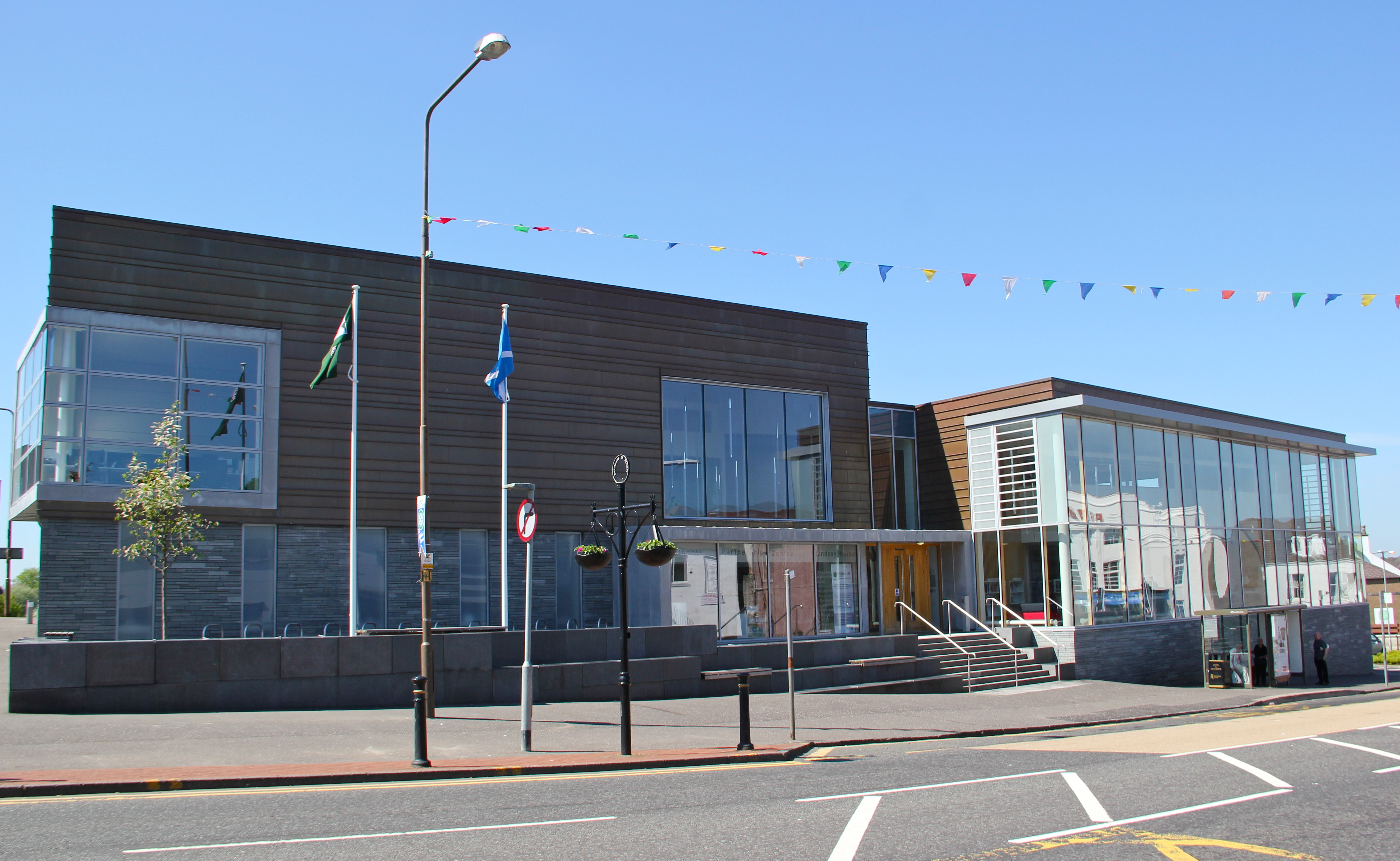 Bathgate Partnership Centre - Lindsay House, Bathgate, West Lothian, United Kingdom